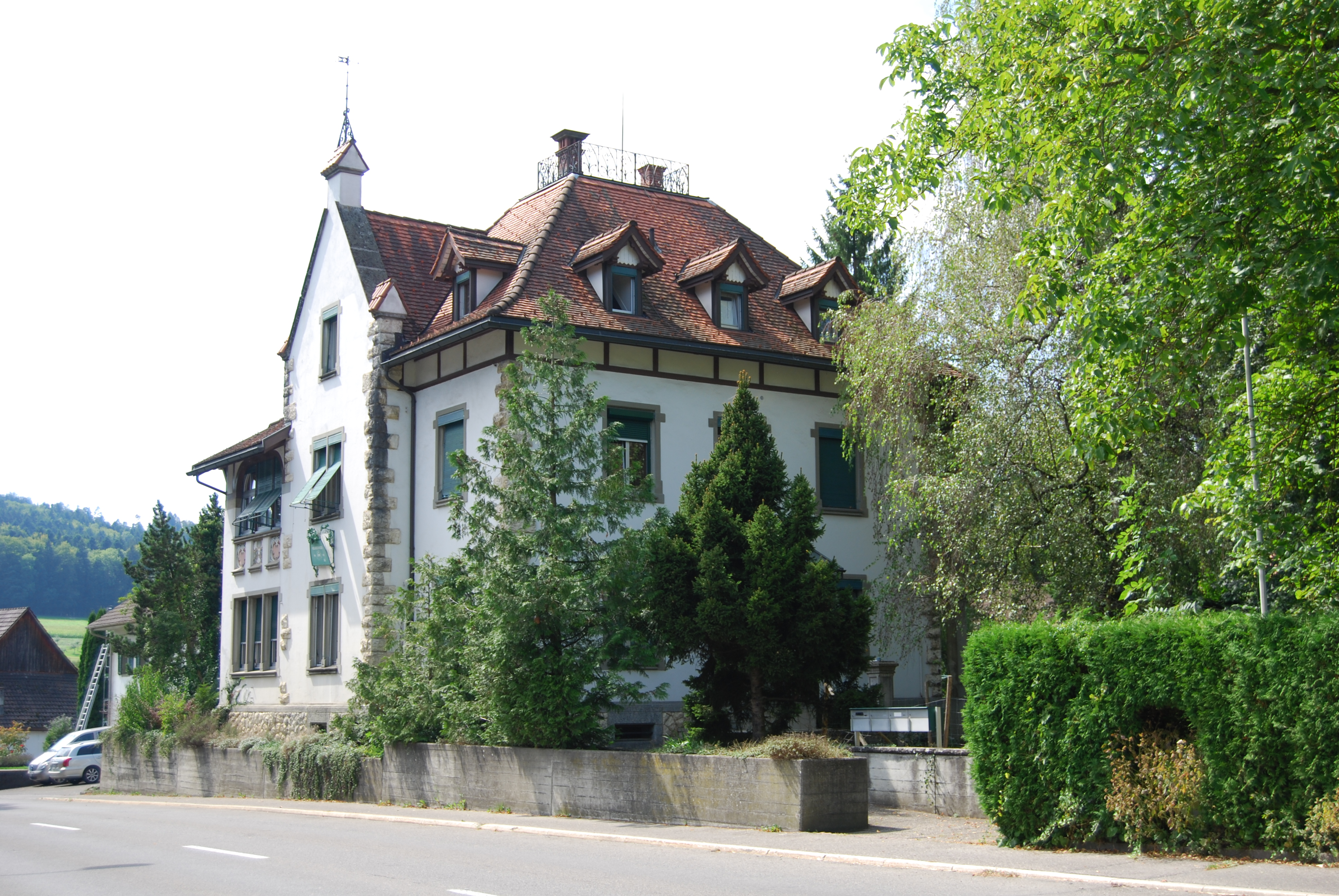 Dürrenäsch, canton of Aargau, SwitzerlandEsperanto: Dürrenäsch, Kantono Argovio, Svislando